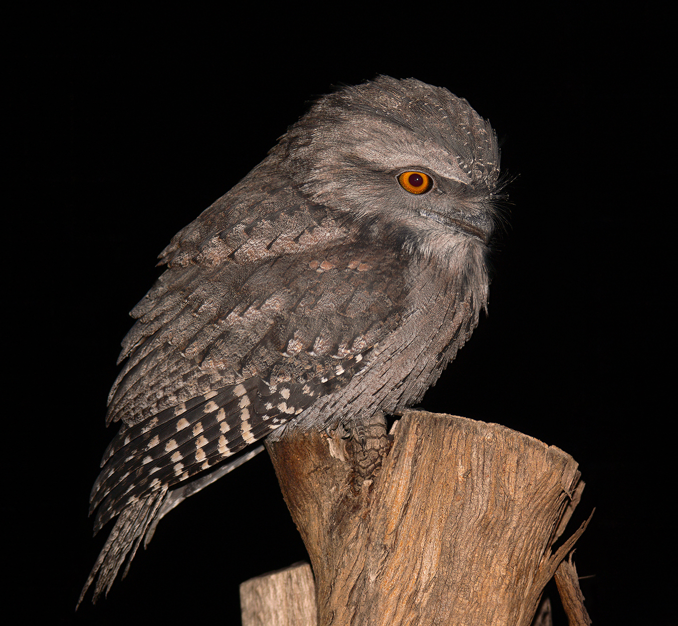 A wild Tawny Frogmouth, Podargus strigoides, image taken at night hence the black background. Taken in south east Australia